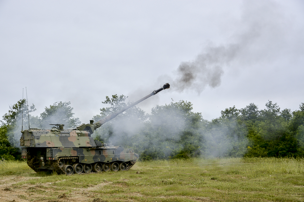 Italian Army Artillery Training Regiment Panzerhaubitze 2000 firing